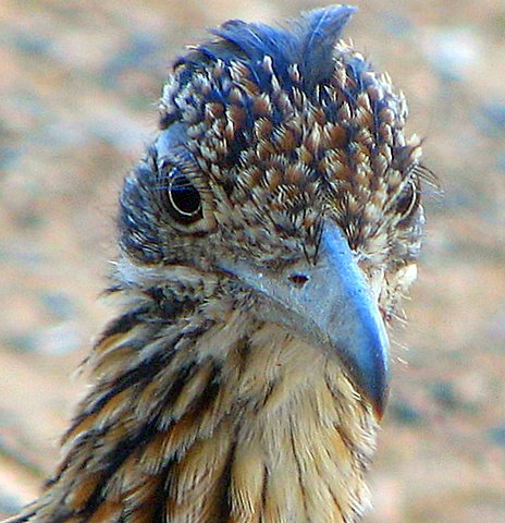 A Geococcyx californianus in California, USA.